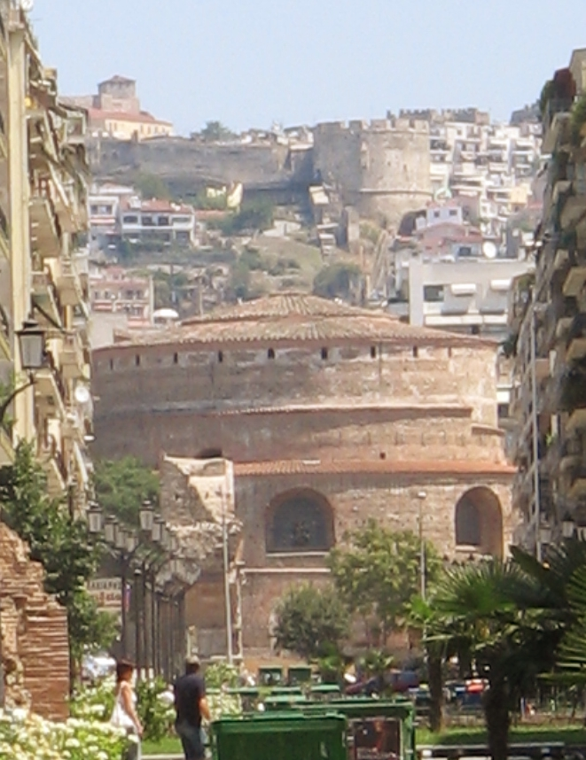 The Rotonda or the Church of Aghios Georgios in Thessaloniki, which is a circular church lacking the classic Orthodox iconostasis. The church is built upon former Roman and Greek pagan ruins.